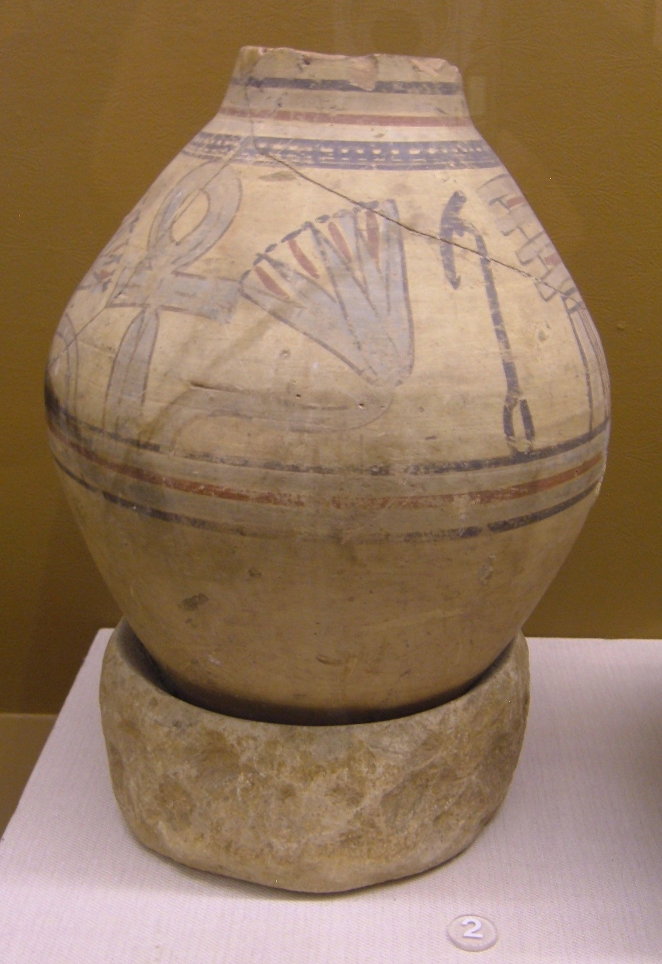 Ceramic jar decorated with the ankh, djed pillar, was-sceptre, and lotus with support ring from Amarna (Dynasty 18) on display at the Rosicrucian Egyptian Museum in San Jose, California. RC 1842, 444